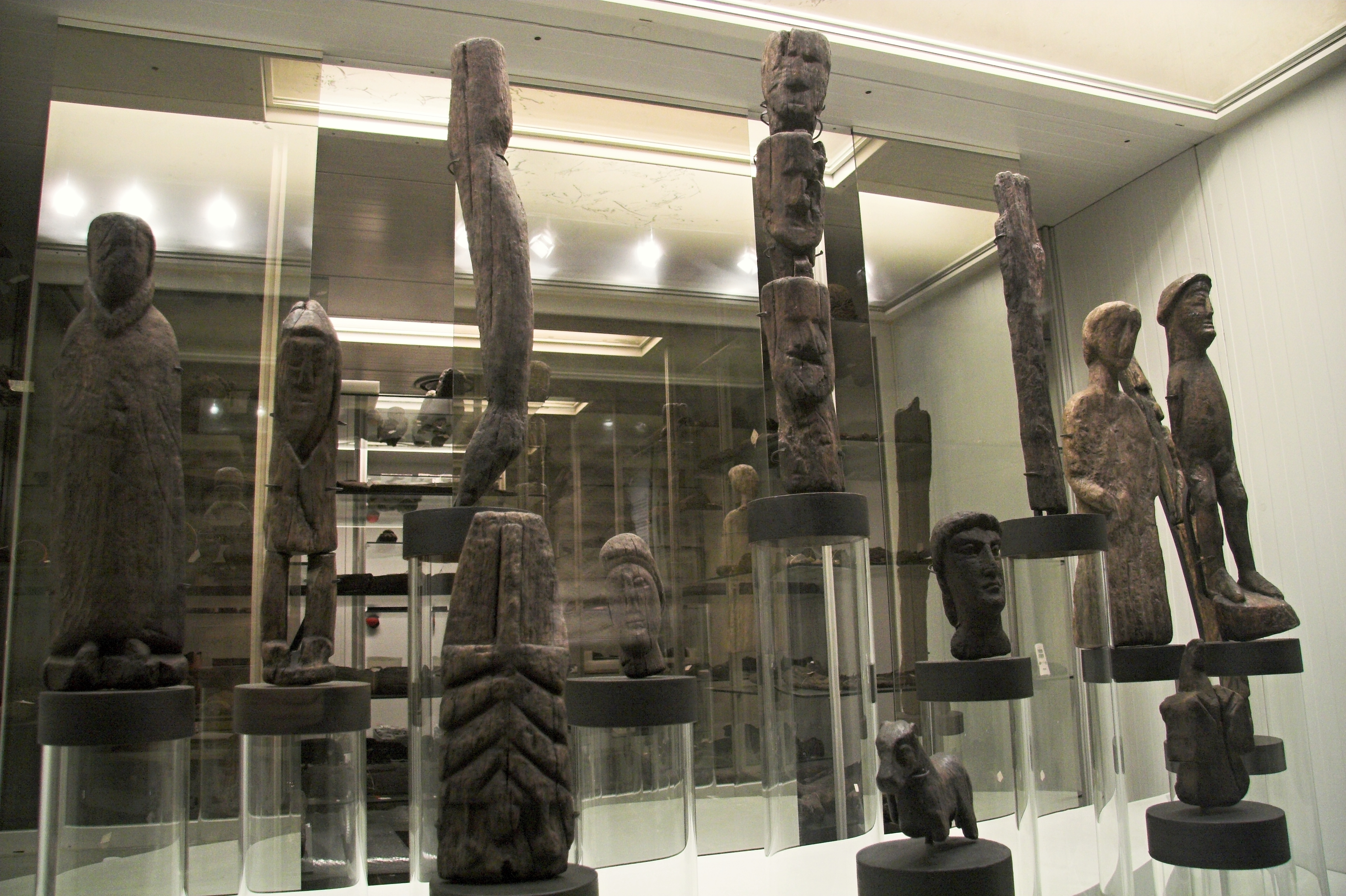 Votive gifts for of Sequana, Goddess of waters. Finding from the vicinity of the Seine Spring. Oak wood, around 80 BC. Musée Archeologique, Dijon.